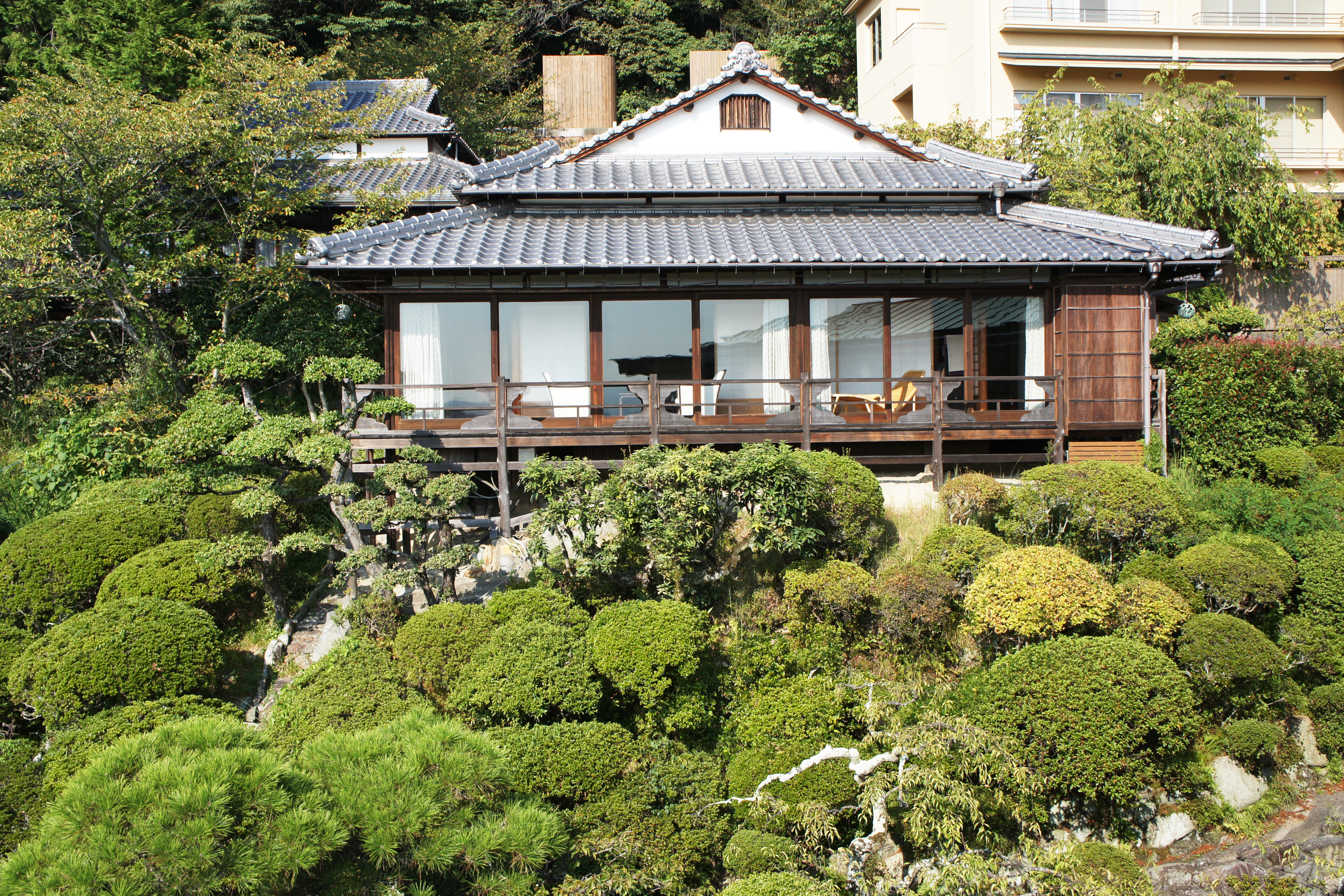 Kotohira-kadan in Kotohira, Kagawa prefecture, Japan.